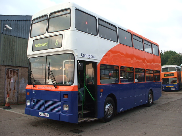 A Centrebus Volvo B10M, fleet number 827, registered G127 NGN.